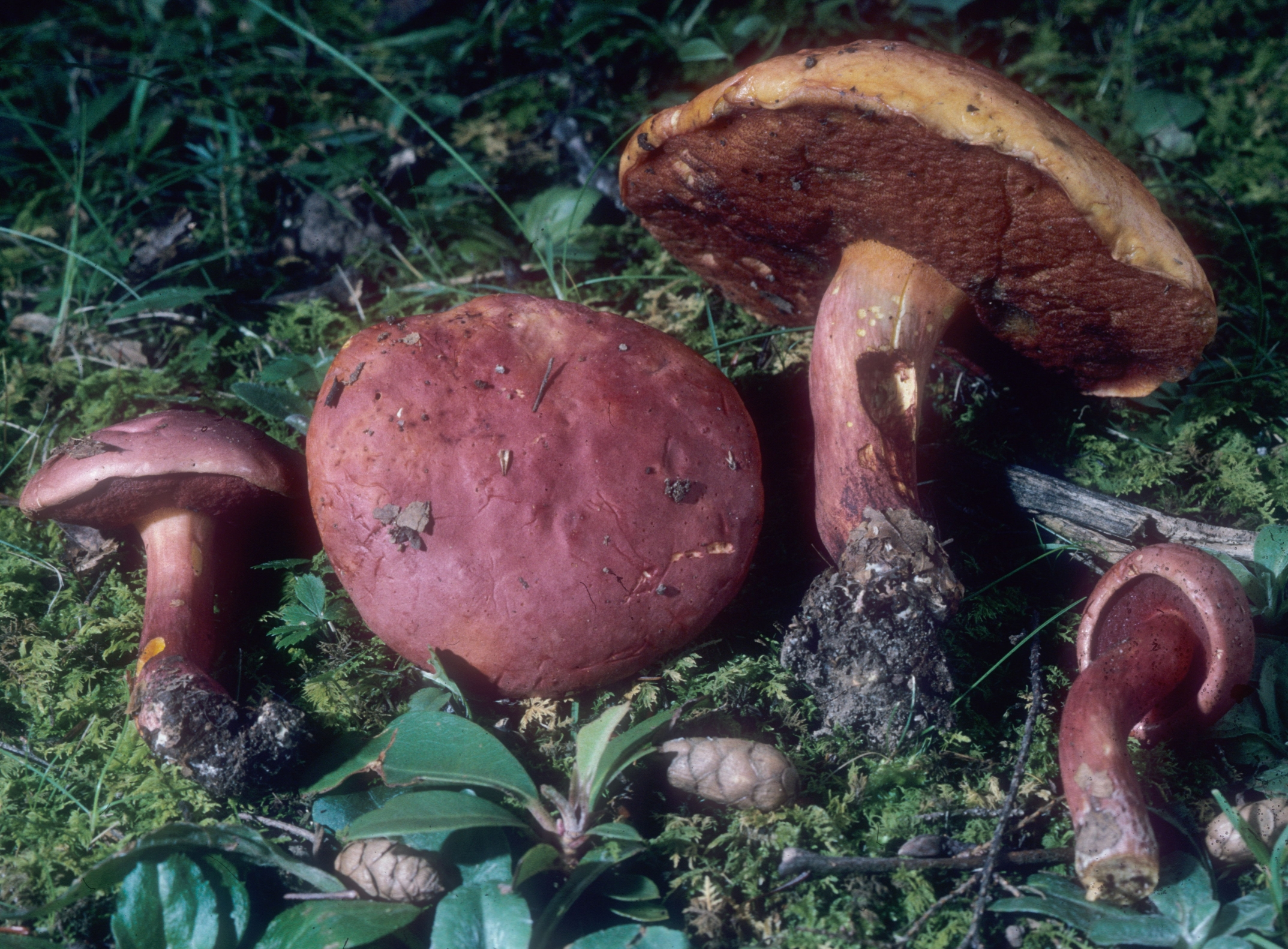 Fruit bodies of the bolete fungus Boletus flammans Dick & Snell. Specimens photographed in Montreat, North Carolina, USA.